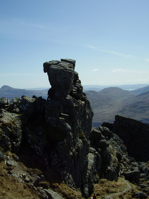 Central peak, The cobbler An interesting short scramble